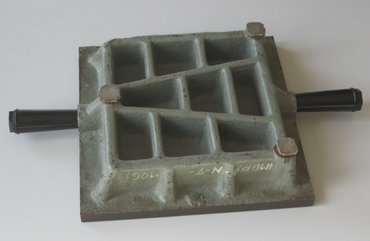 iron surface plate 250x250 mm - bottom